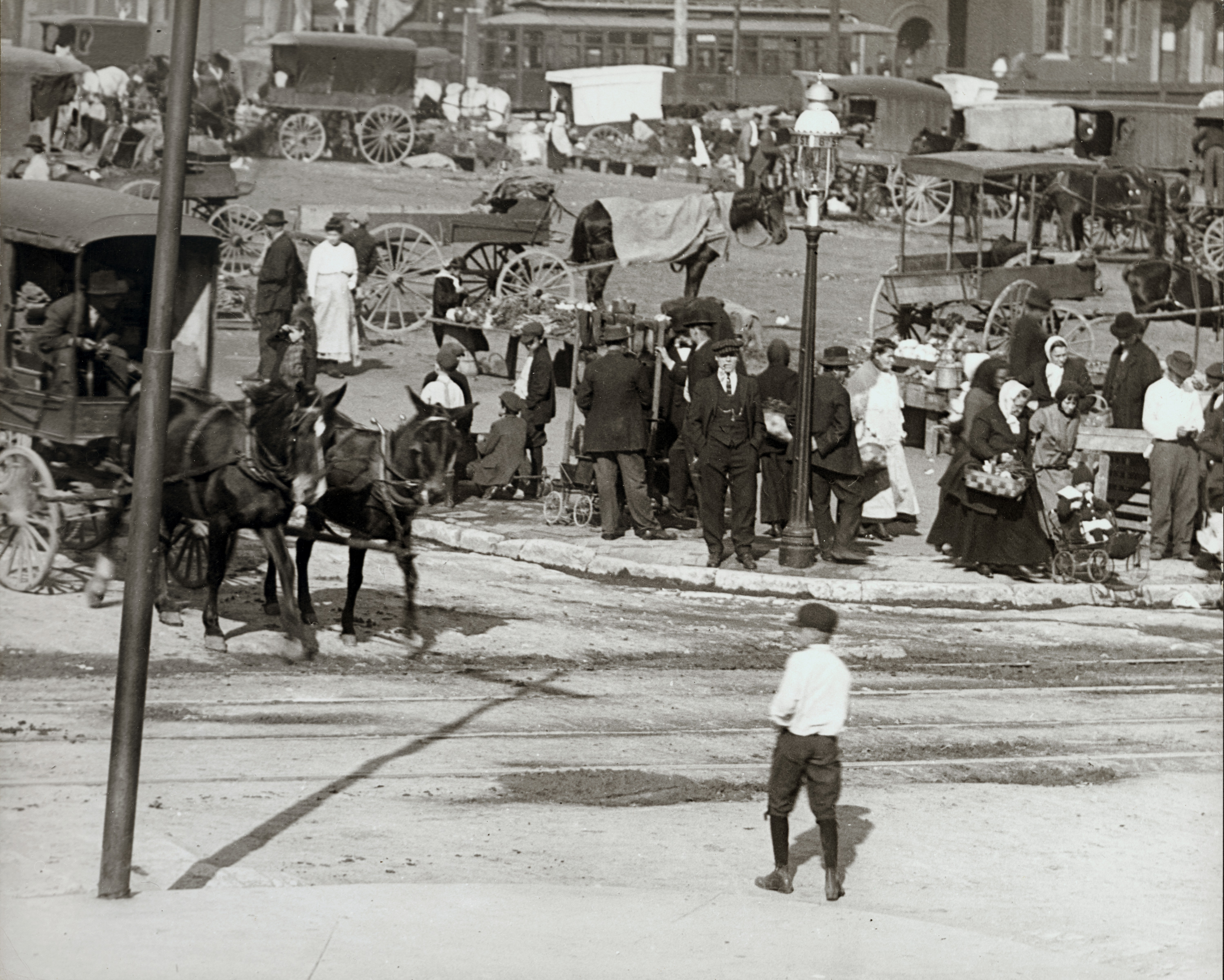 Horizontal, black and white photograph of horse drawn carriages and groups of people.Title: Eighth Street. Soulard Market with crowds.